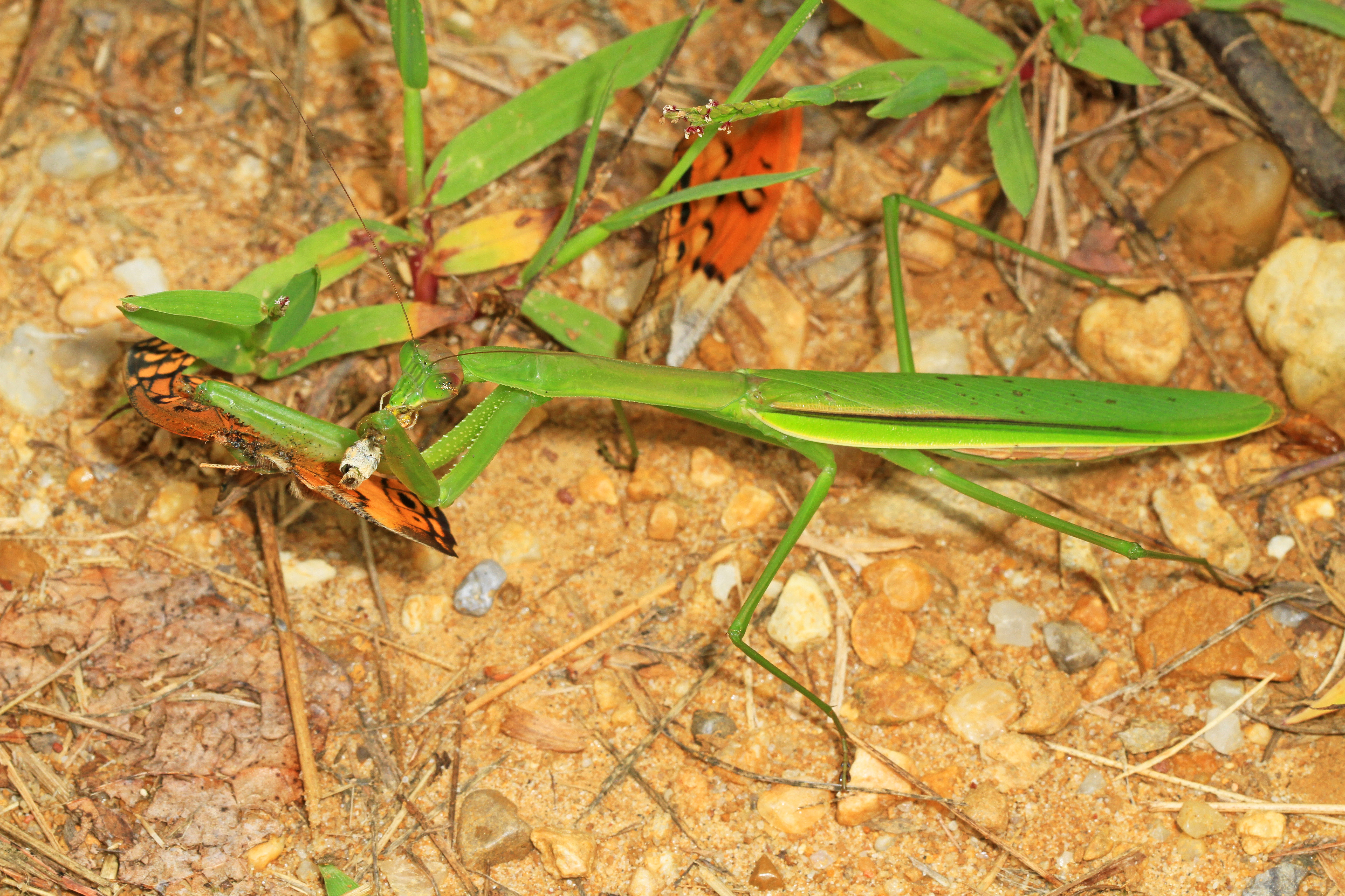 Chinese Mantis - Tenodera sinensis and remains of a Variable Fritillary, Meadowood Farm SRMA, Mason Neck, Virginia. I noticed the butterfly wing, but the mantis blended in so well with the grass that I would not have seen it except for the butterfly wing.